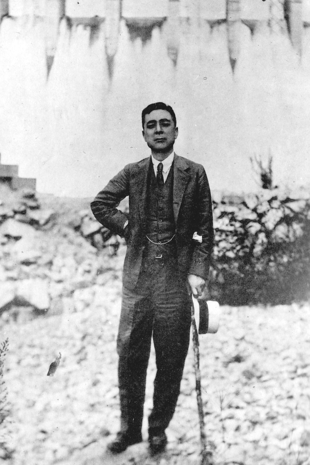 Momosuke Fukuzawa (around 57-year-old) in Ōi Dam.